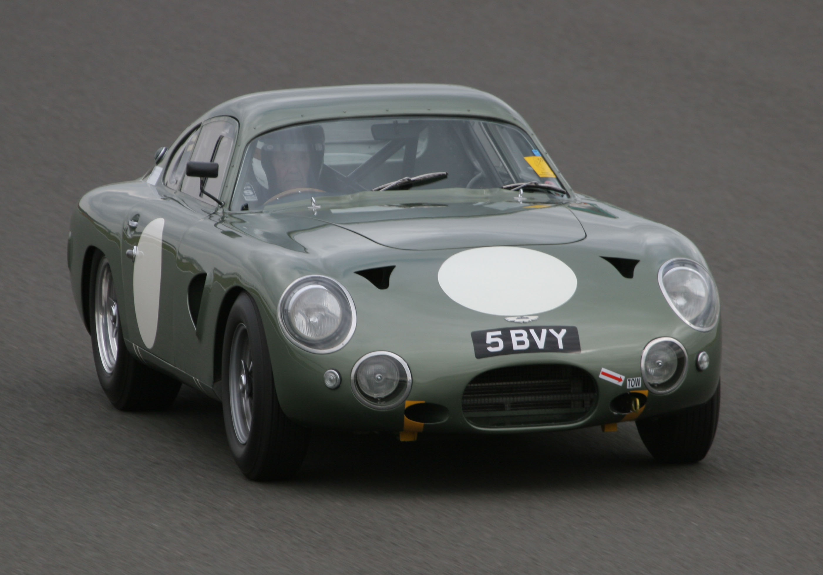 Aston Martin 'DB4GT214R2' An interesting one... I found on the web: ...there are two known replicas. The car owned by Wolfgang Friedrichs is the Ken Lawrence car mentioned above and has been with us for many years. For my own purposes I designate this DB4GT/214/R1. The second car is the much more recently built car for Martin Brewer, but build was apparently started (according to the AMOC) alongside the above car. It was built up using DB4/559/L as the basis. Completed in 2005, it was given the registration no DSL 449, but as I understand it has been re-registered since as 5 BVY so that it closely resembles that accorded to the surviving original car. This was the car that appeared at the 2007 Le Mans Legends race on 16 June. I will call this DB4GT/214/R2.